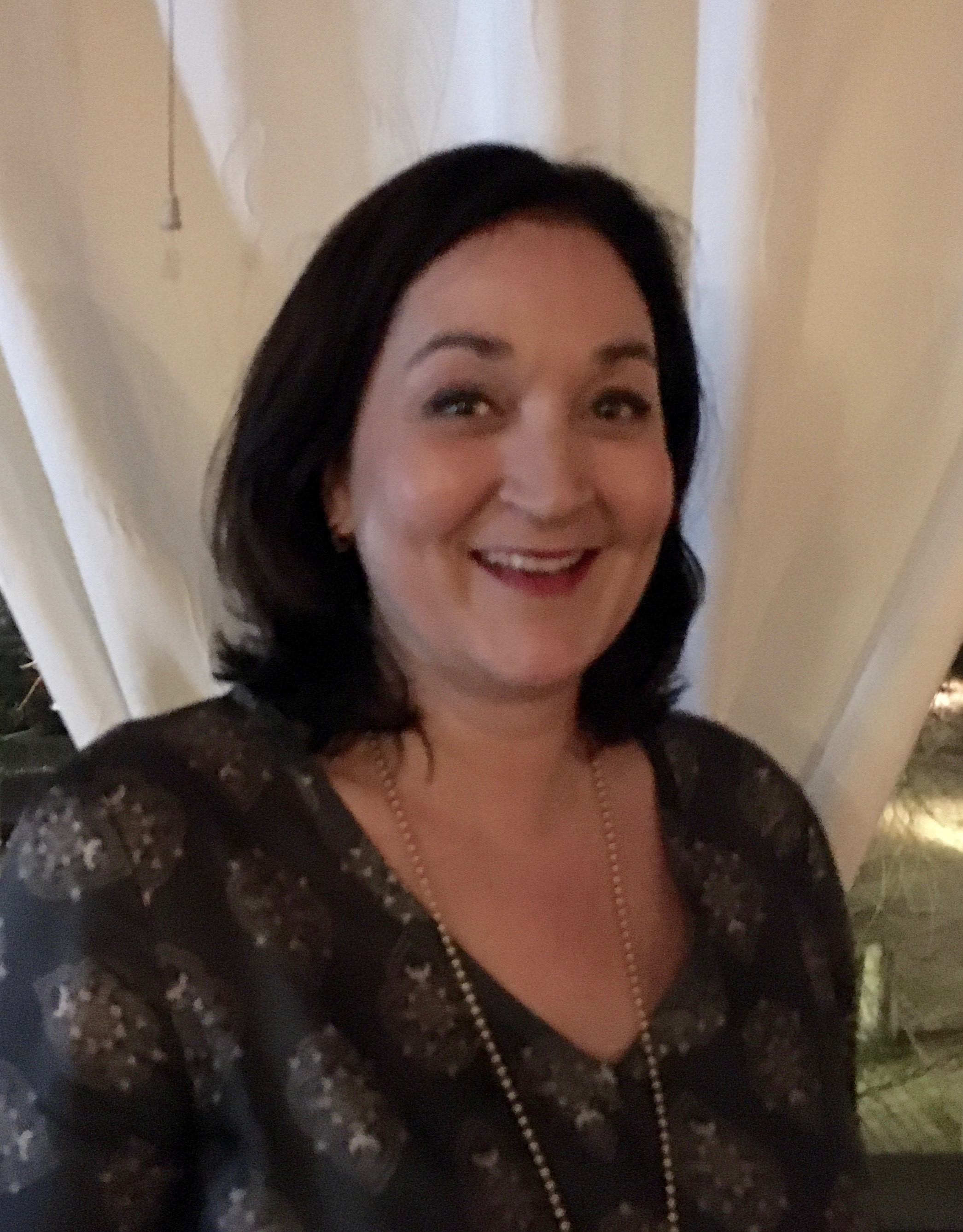 Katarina Karnéus, hovsångerska in 2018